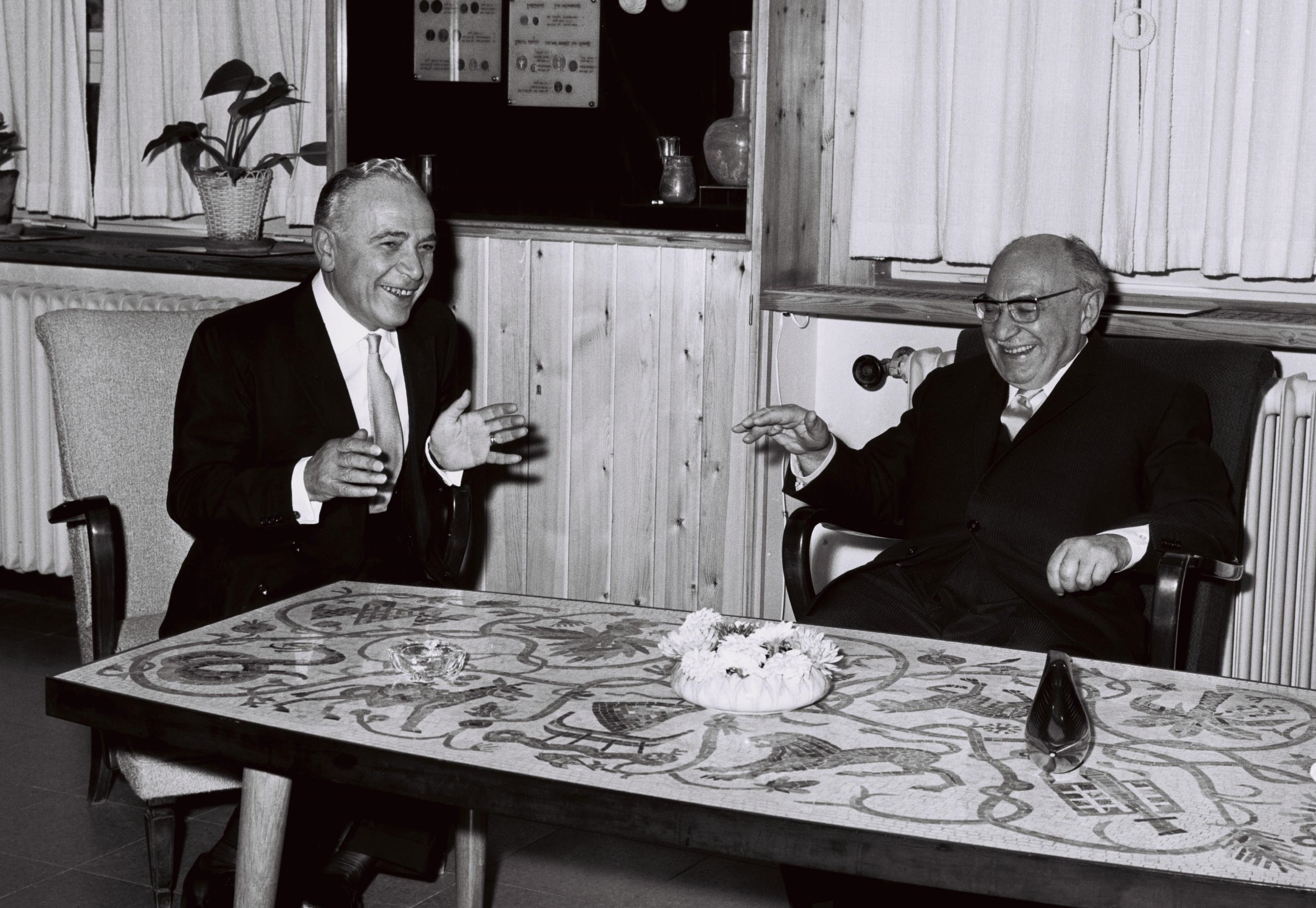 AMB. PETRUS ALBERTUS KASTEEL WITH PRES. ZALMAN SHAZAR AFTER PRESENTING HIS CREDENTIALS AS DUTCH AMB. IN ISRAEL AT "BEIT HANASSI" IN JERUSALEM.